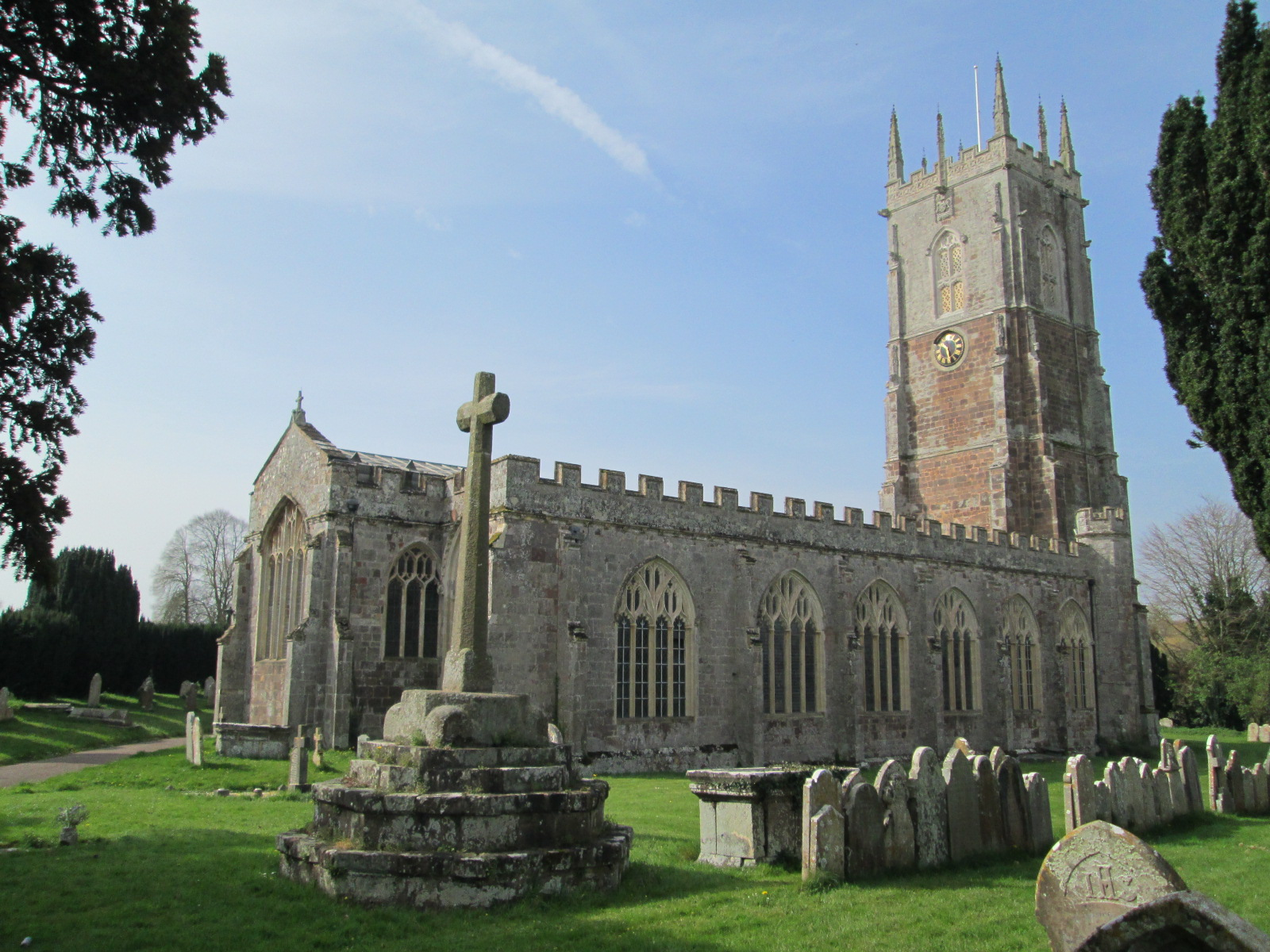 St John the Baptist's Church, in Broadclyst, Devon, viewed from the north-east, and the churchyard cross.